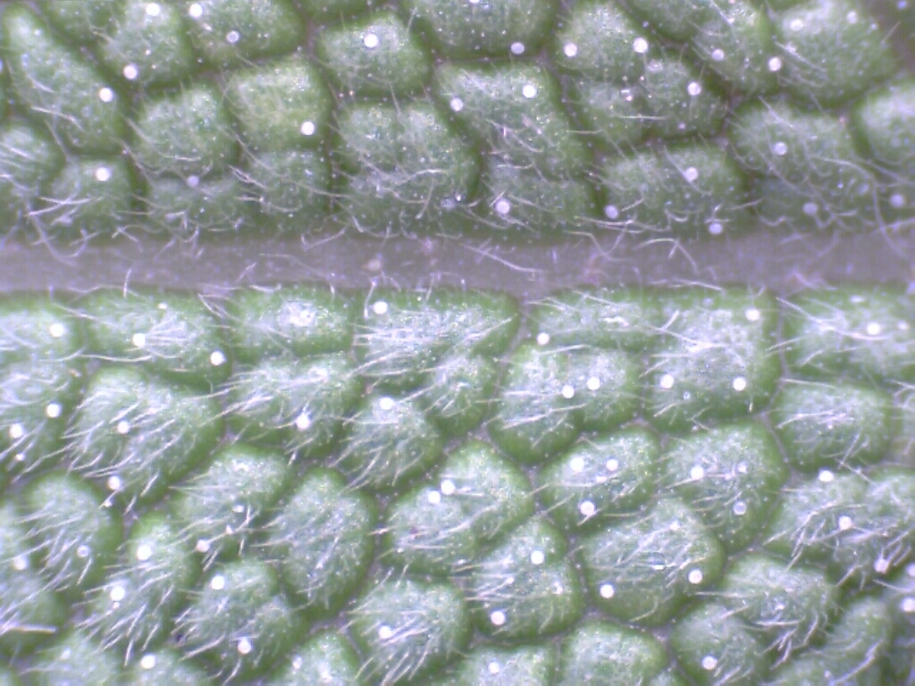 A close up photograph of the upper surface of a leaf of Salvia officinalis. Scale = 6mm across. Taken with a USB microscope in Gloucestershire, UK.